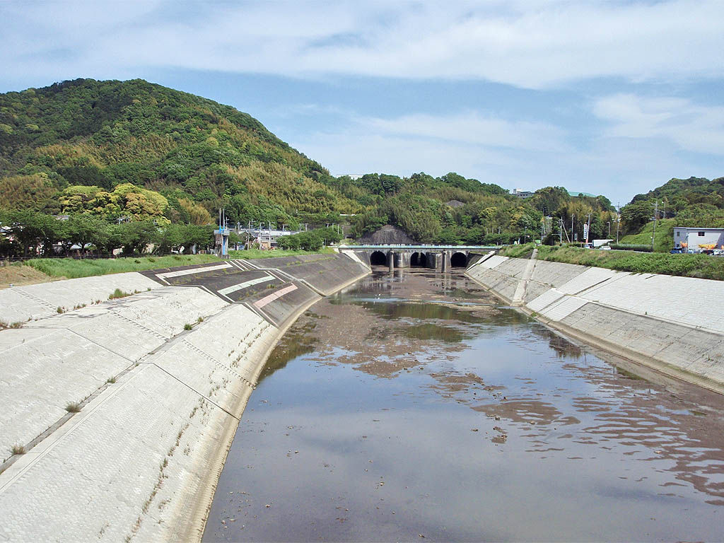 Kanogawa flood control channel in Izunokuni, Shizuoka Prefecture, Japan.